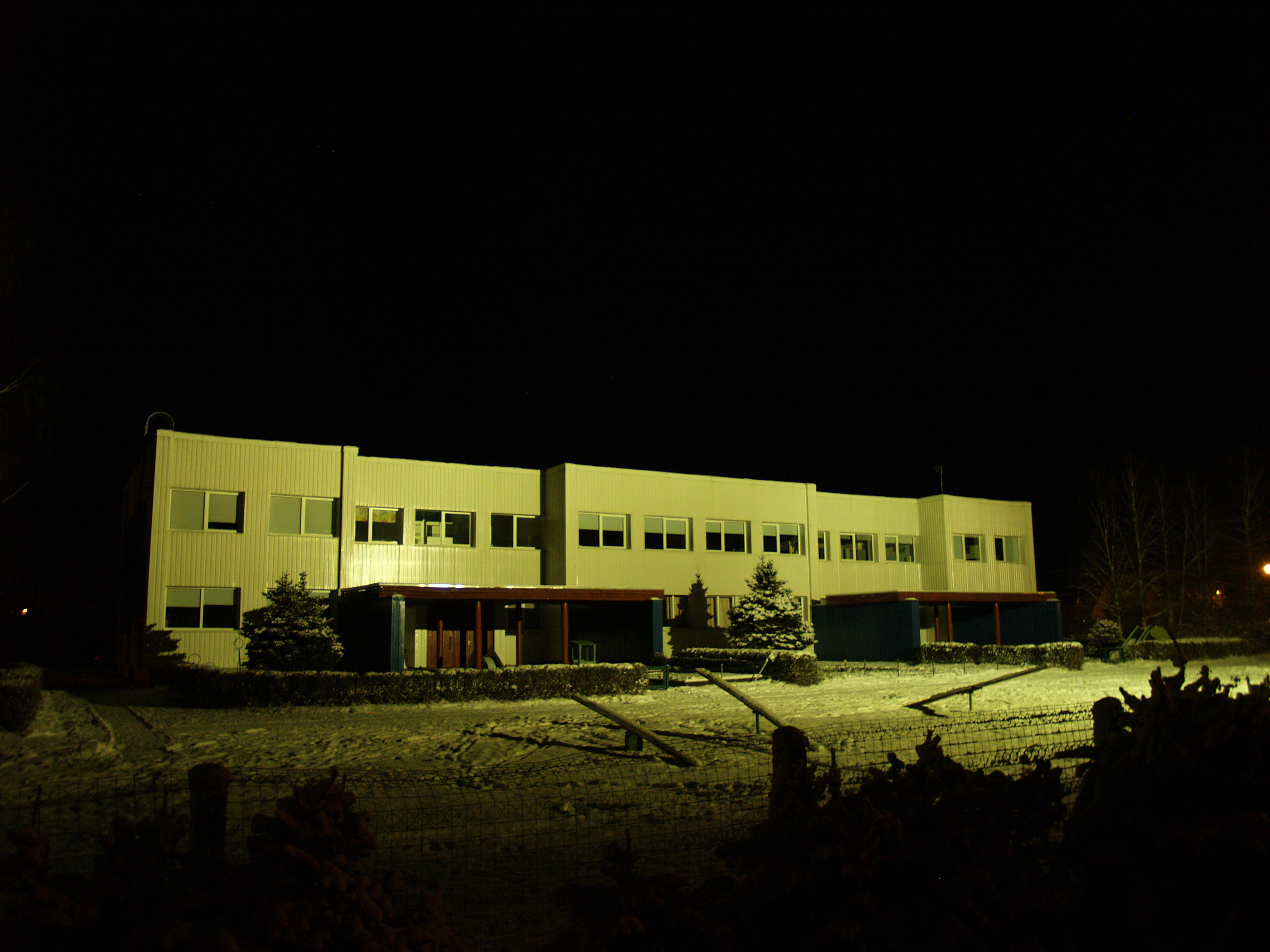 Kose playschool